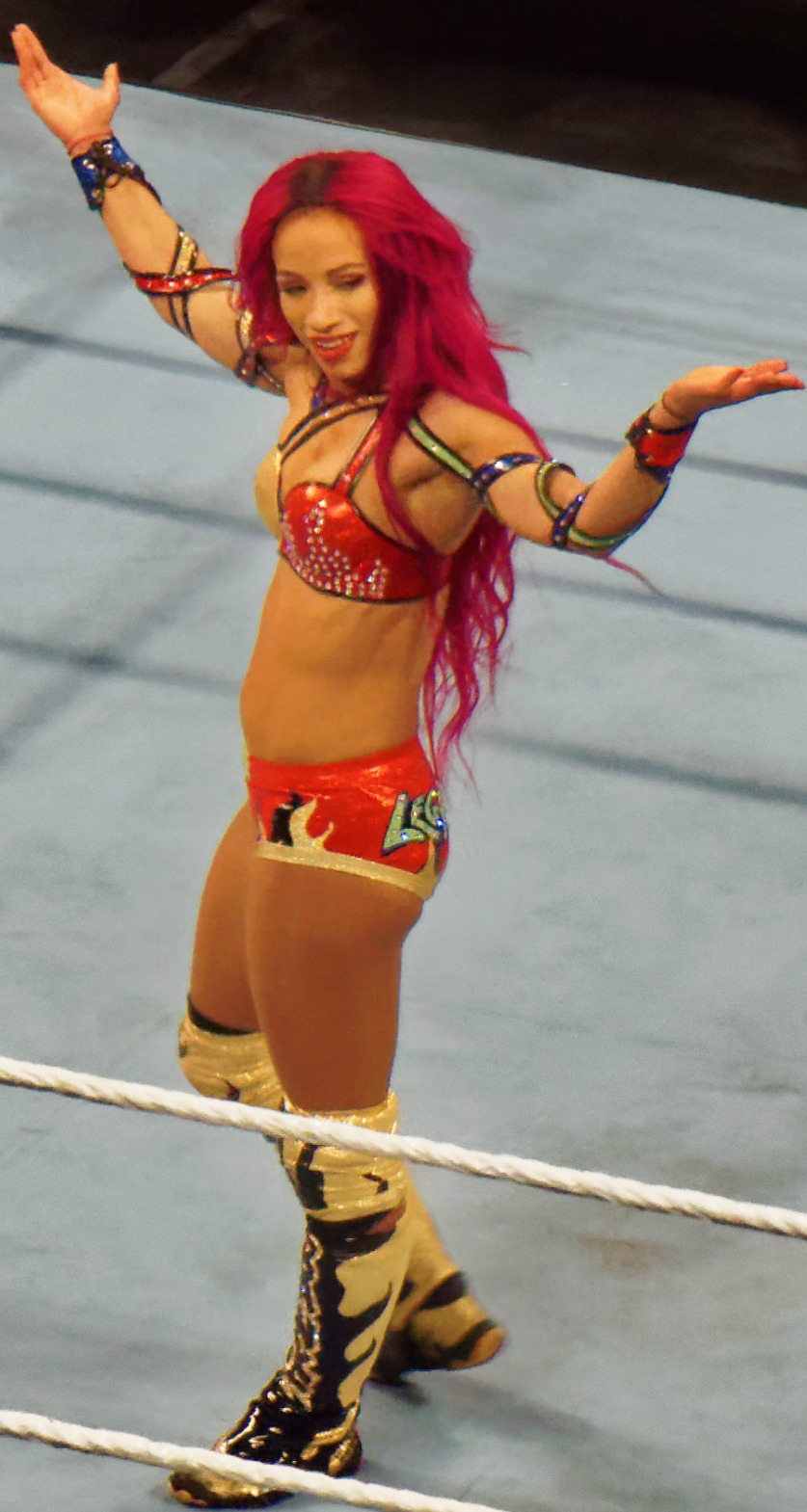 Sasha Banks celebrating a victory the night after WrestleMania 32 on Raw in April 4, 2016.